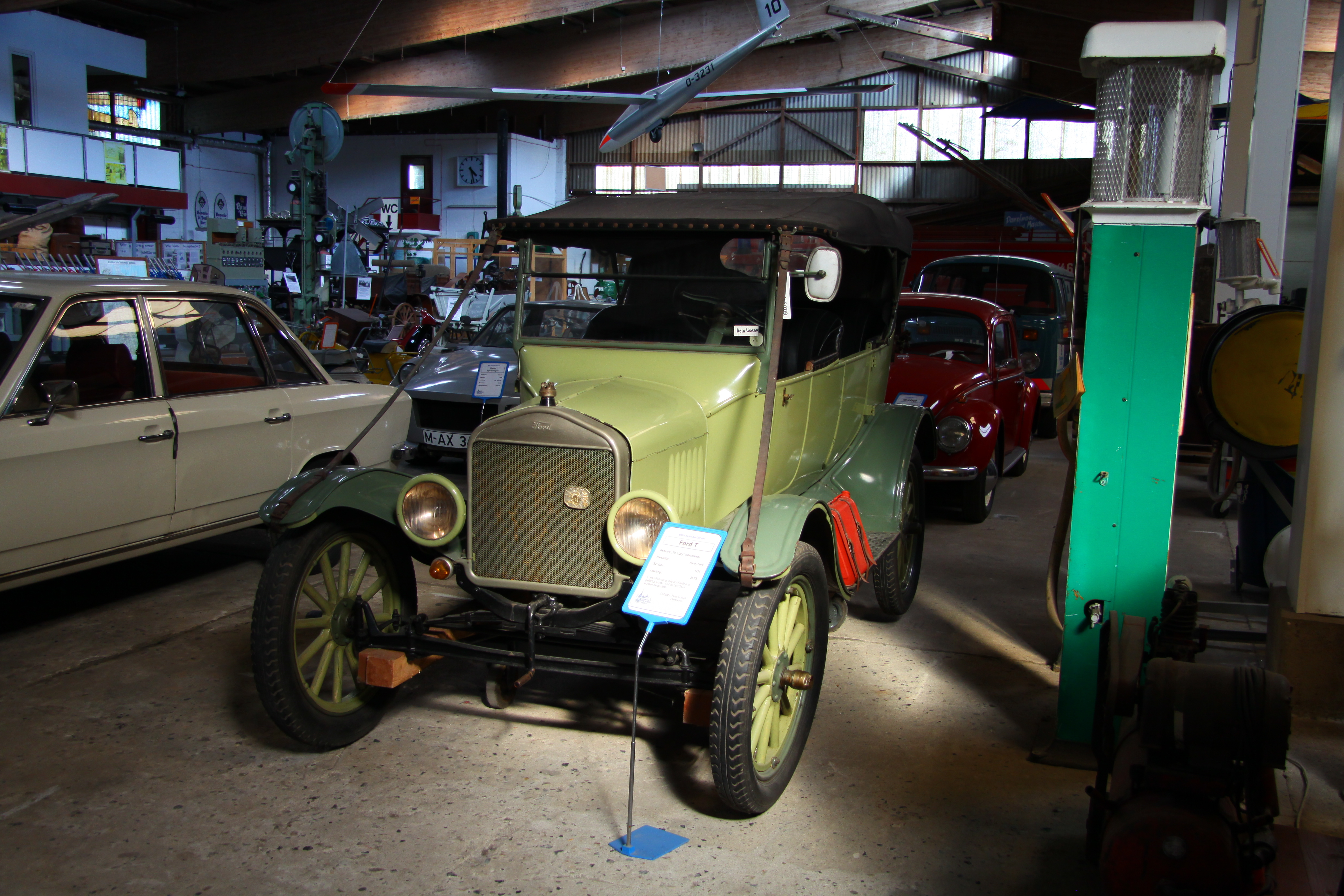 1921 Model T in the TuVM Stade